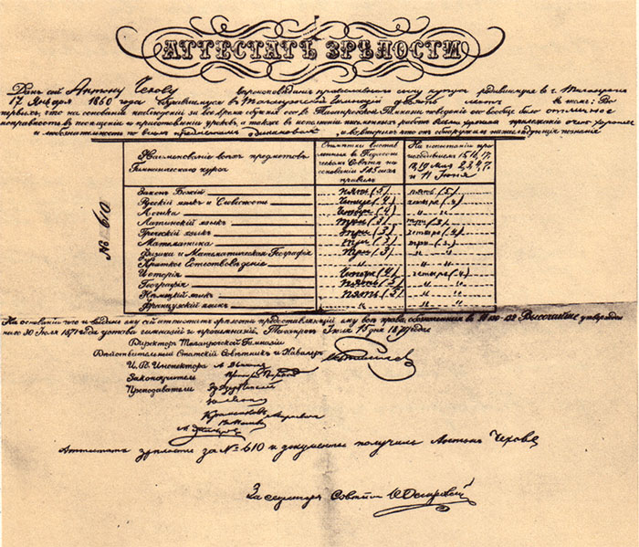 school-leaving certificate ("аттестат зрелости") of Anton Chekhov